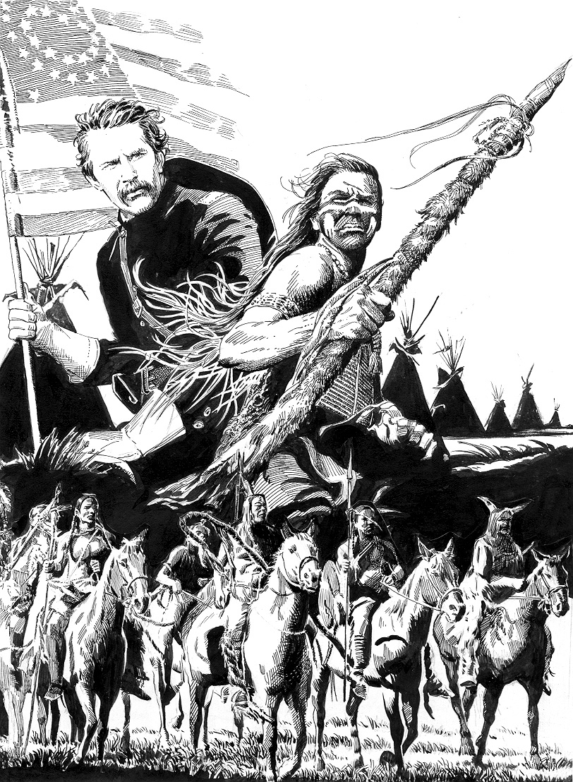 Illustration